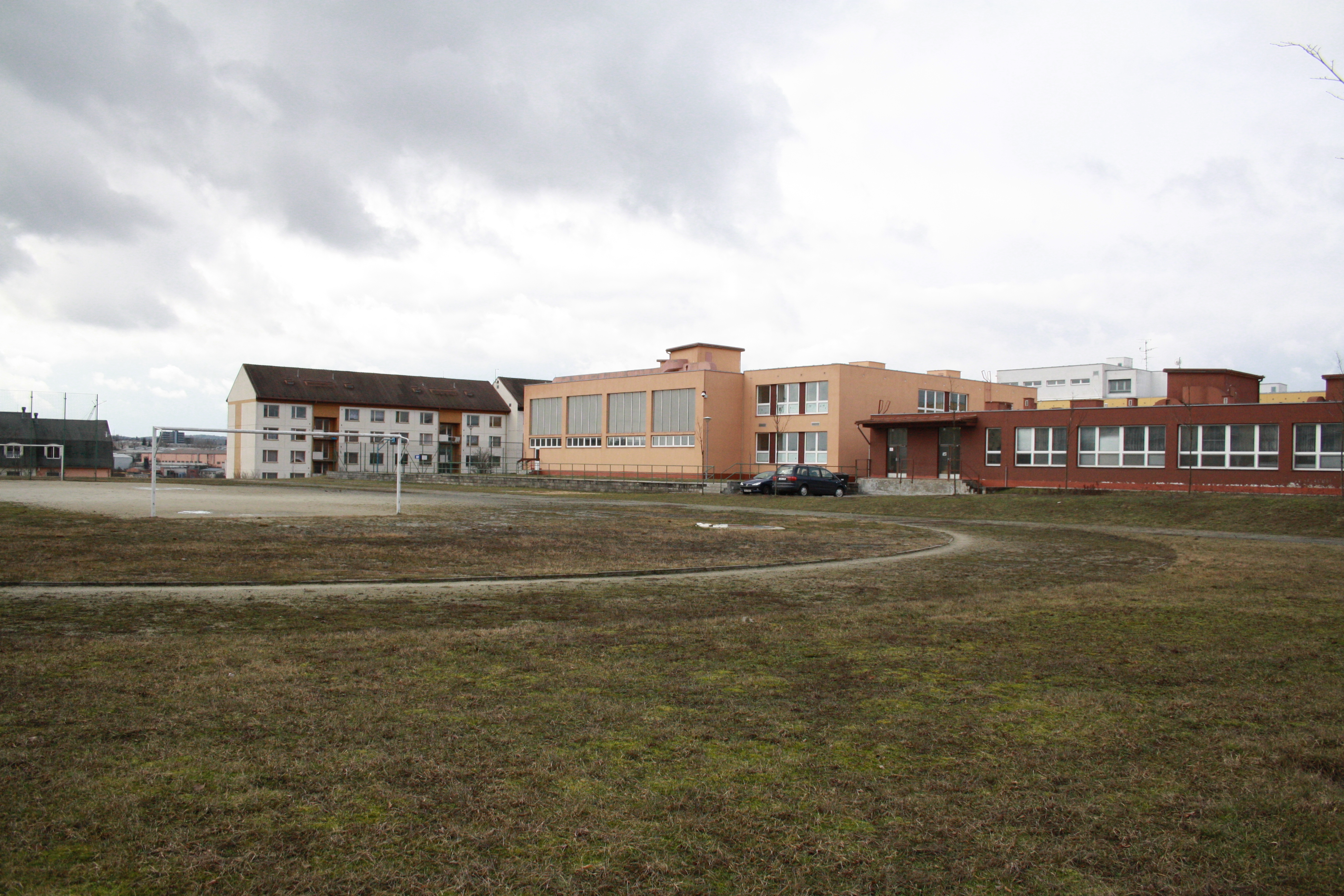 Sports centre of ZŠ Na Kopcích, Třebíč, Czech Republic.